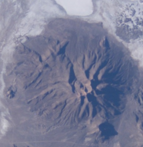 A photography of Cerro Saxani from space. Crop of image here.